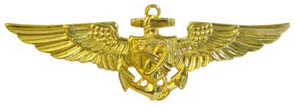 Naval Astronaut insignia, worn by pilots in the U.S. Navy that pass astronaut training. See U.S. Navy Uniform Regulations: 5201 - Breast Insignia.